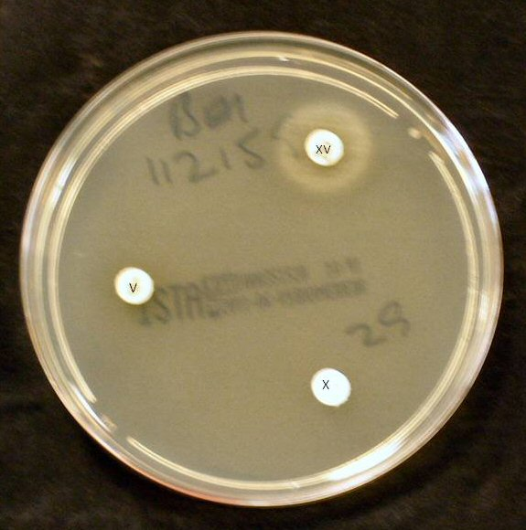 X and V test for Haemophilus influenzae.